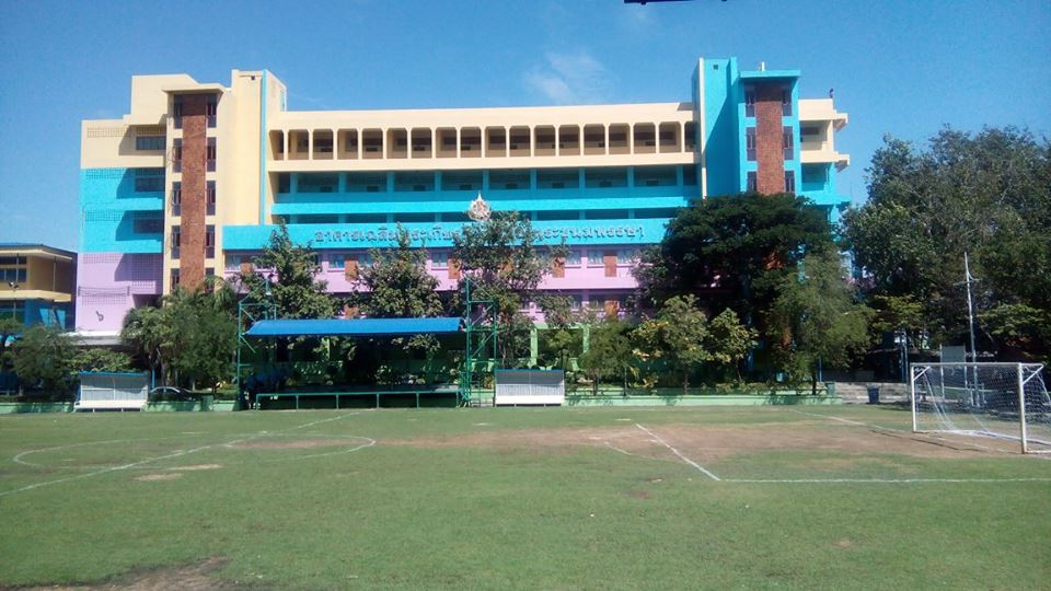 building 6 in2557